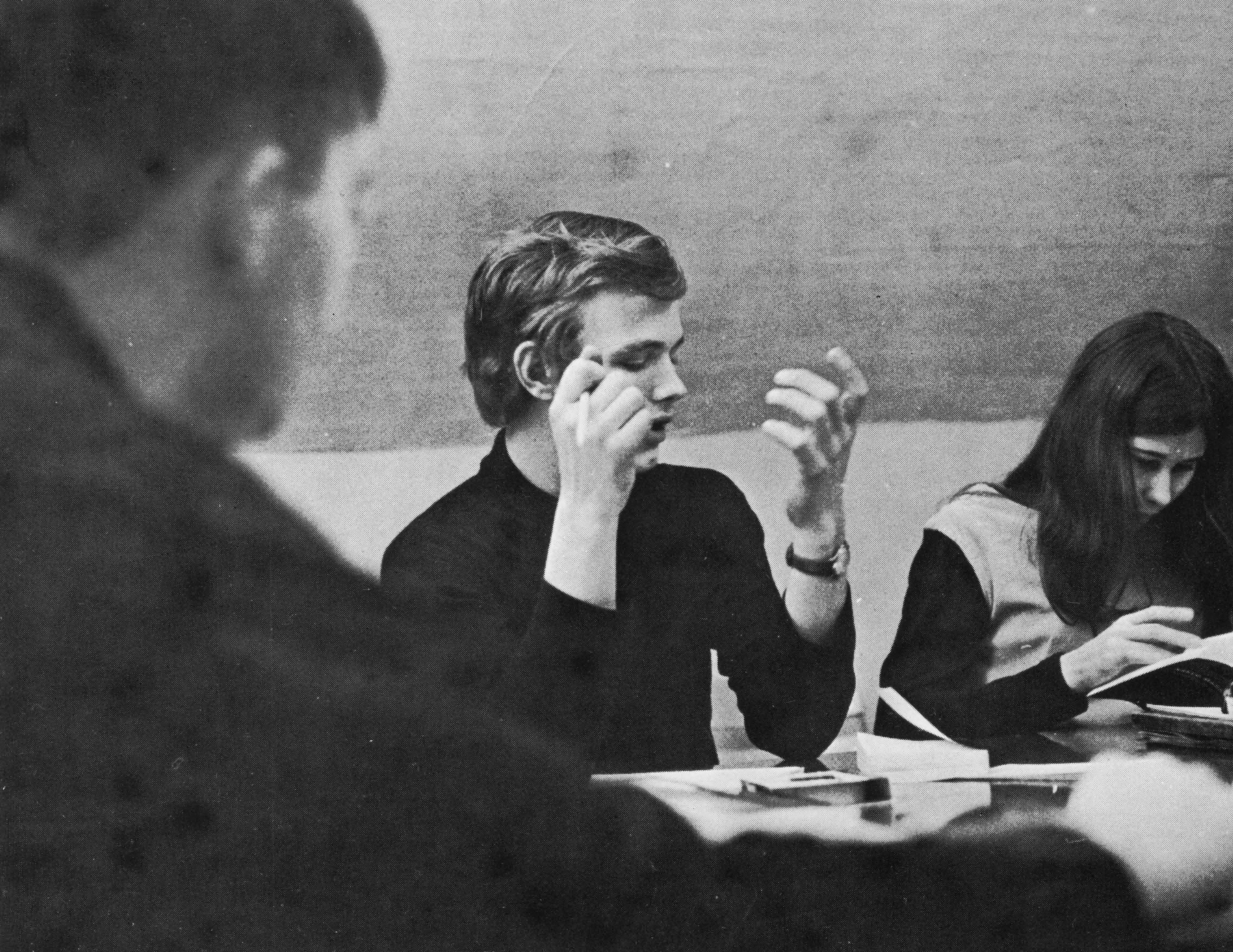 Student gestures during a class discussion at Shimer College in 1967. Published in the Recondite yearbook, which was published without a copyright notice.